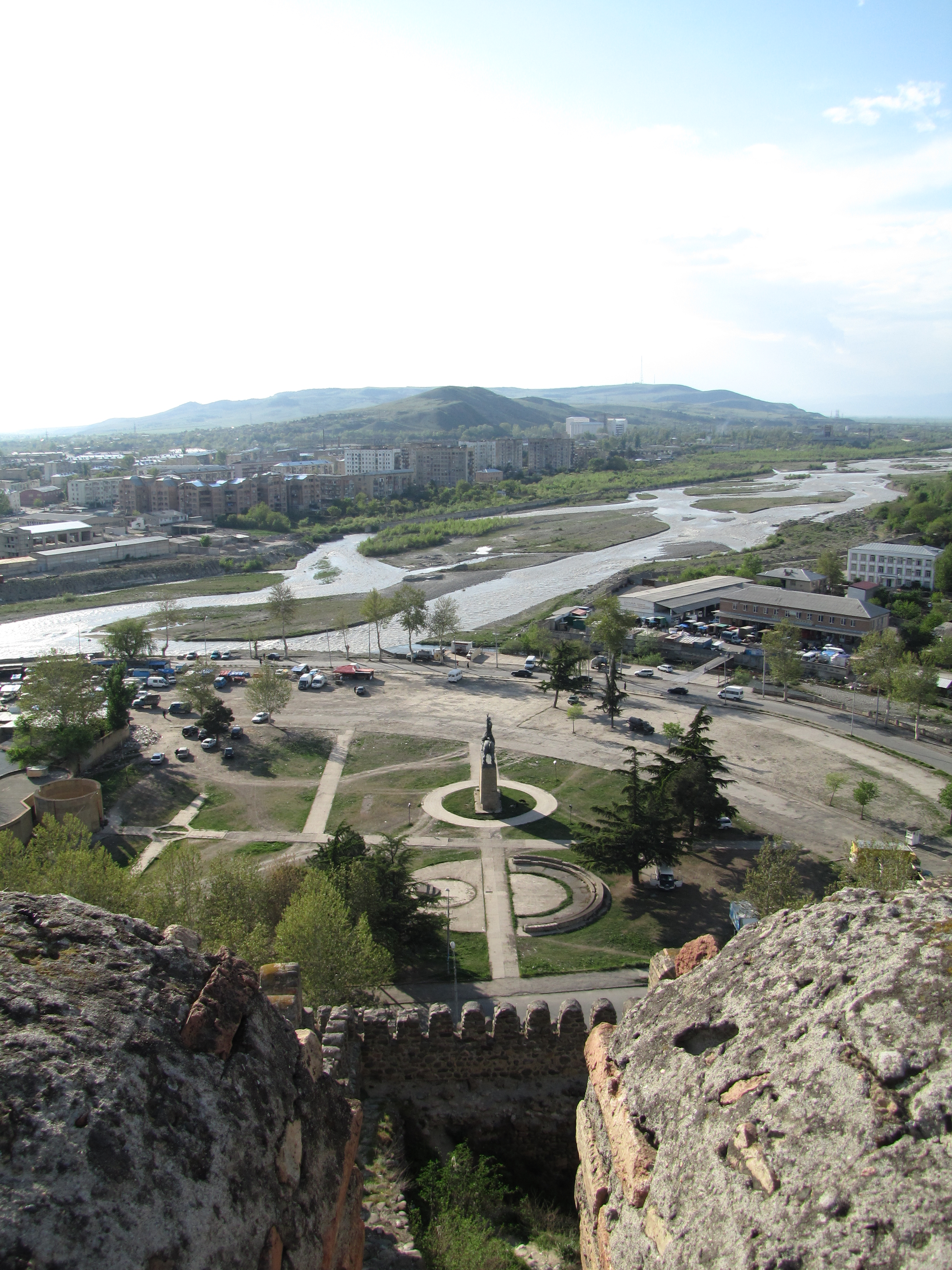 Views from the Gori Fortress